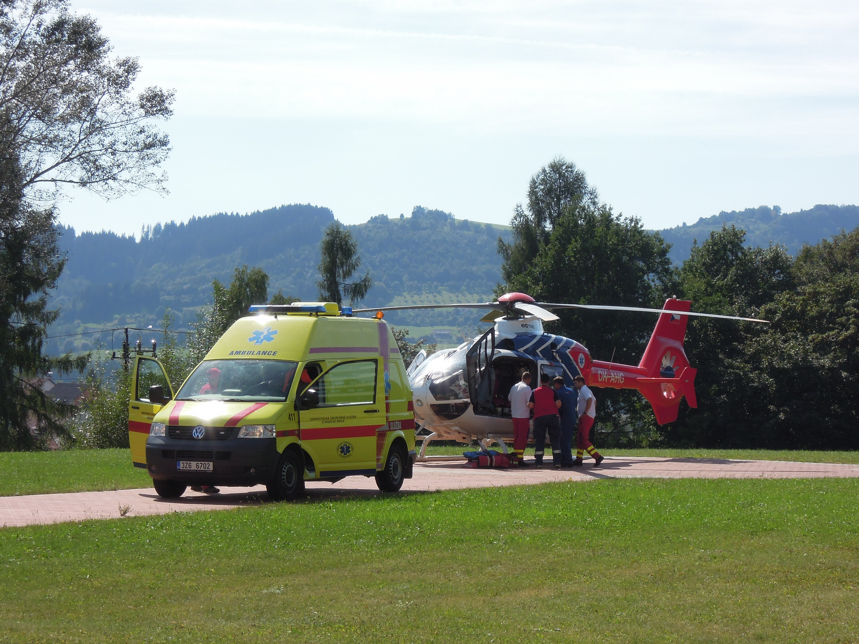 Rescue helicopter Eurocopter EC135 T2+ Kryštof 09 of the Emergency Medical Service of Olomouc Region and Volkswagen Transporter T5 ambulance vehicle of the Emergency Medical Service of Zlín Region in Valašské Meziříčí, Vsetín District, Zlín Region, Czech Republic